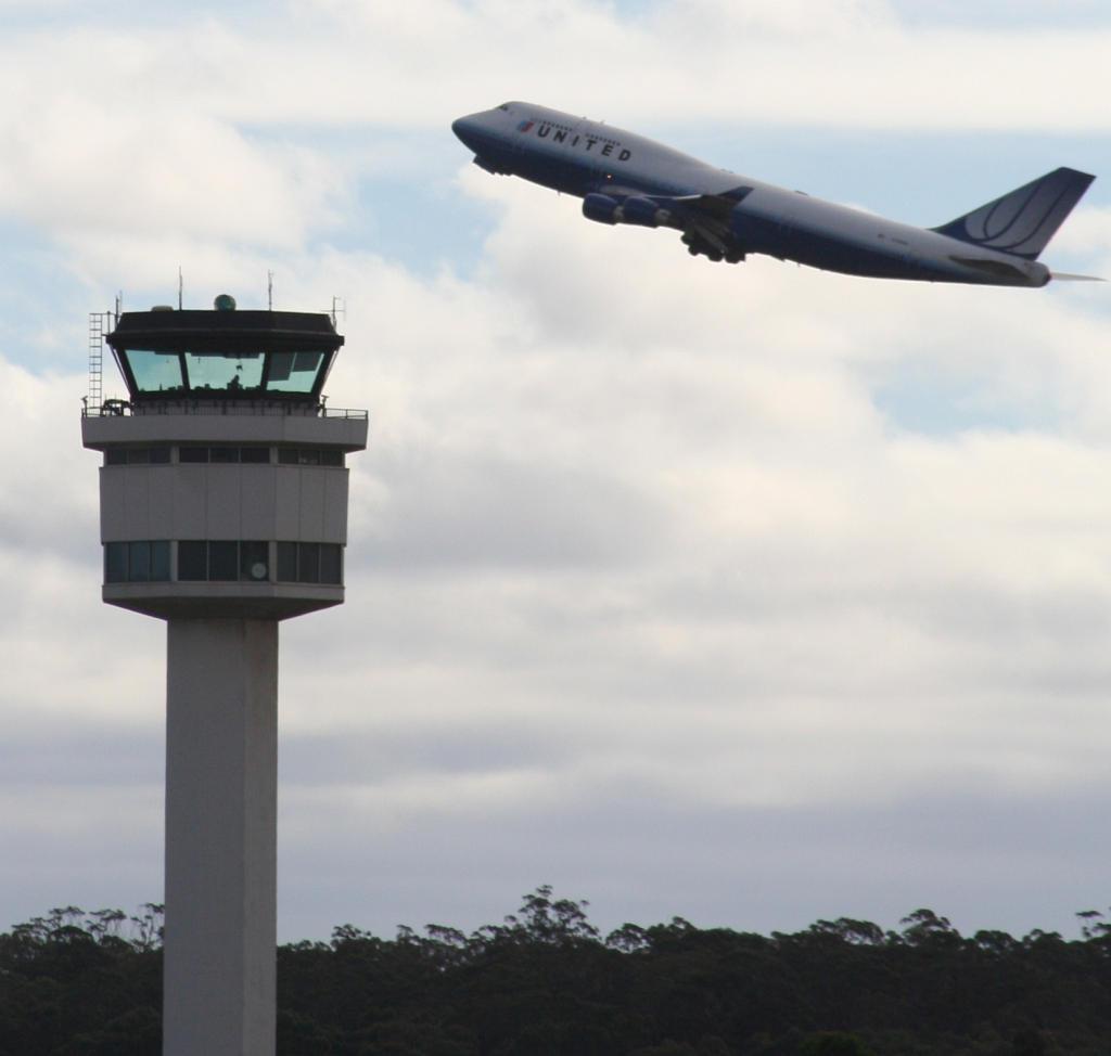 United Airlines Boeing 747 taking off at Melbourne Airport in front of air traffic control tower